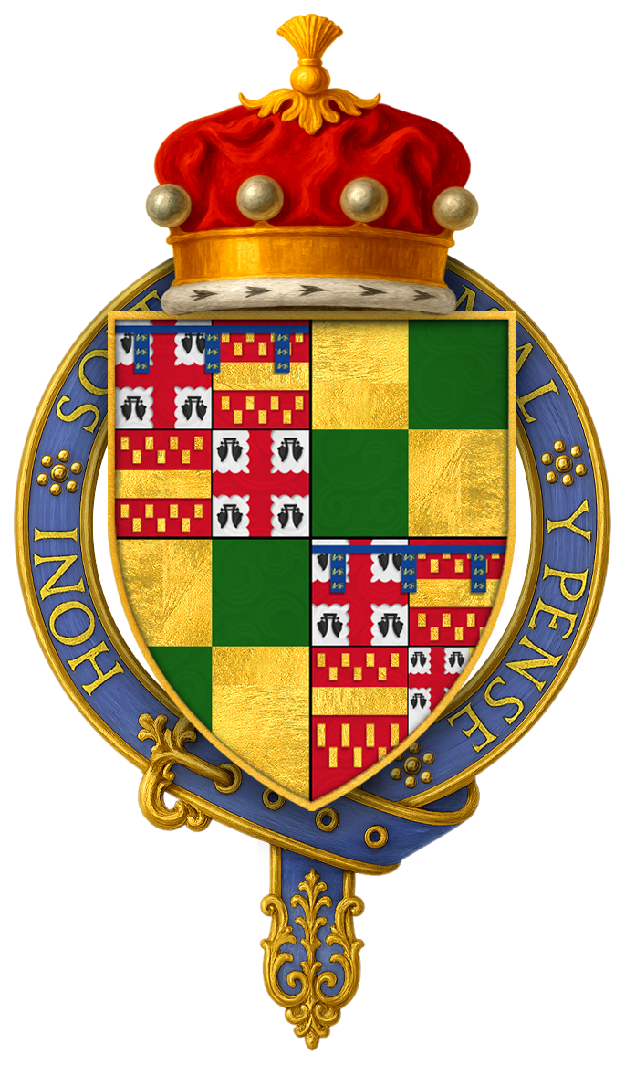 Sir John Bourchier, 1st Baron Berners, KG HOPE, W. H. St. John, The Stall Plates of the Knights of the Order of the Garter 1348 – 1485: A Series of Ninety Full-Sized Coloured Facsimiles with Descriptive Notes and Historical Introductions, Westminster: Archibald Constable and Company LTD, 1901. “ Sir John Bourchier, Lord Berners, K.G. 1459-1474… the shield of arms is quarterly: 1 and 4, silver a cross engrailed gules and four water bougets sable (for Bourchier), quartering gules billety and a fess gold (for Lovain), with a label azure of three points each charged with three leopards gold; 2 and 3, quarterly gold and vert (for Berners). ” Lord Berners' stall plate remains intact within the twelfth stall, on the north side of the quire.